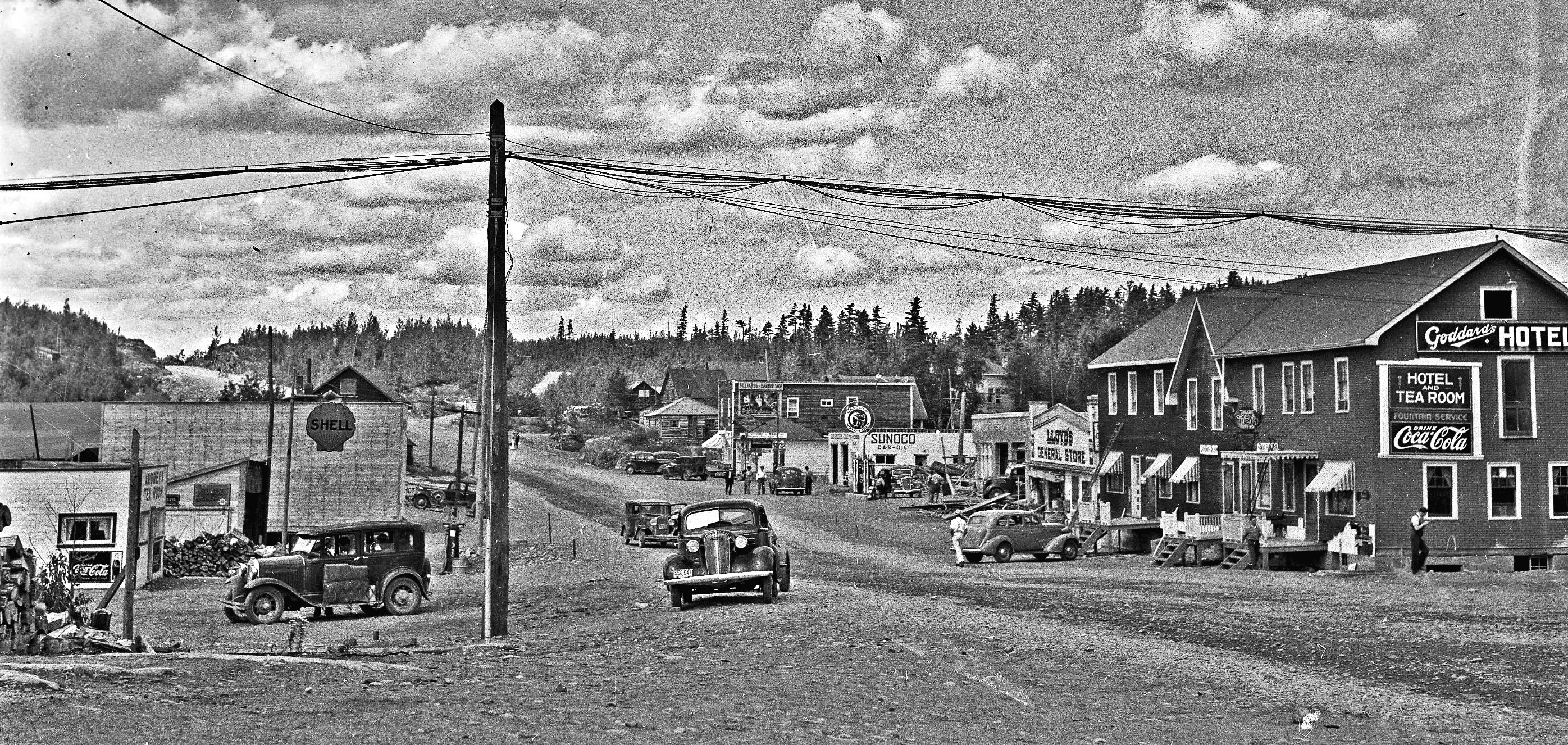 "August 7, 1938. Temagimi street scenes" typed on the negative envelope. (sic, Temagami) I looked up Dad's diary for the date: "We went right through North Bay and onto the Ferguson Highway. We found that much of it has been rebuilt on a new location and it stretched ahead wide and broad - but gravel. We kept on going.. After aways, we reached the old road, as yet not rebuilt. The going was rougher and slower. But on we plowed. We had a most excellent meal in a restaurant" I was amazed at all the cars, signs and people I saw when I got the negative scanned onto the computer screen.